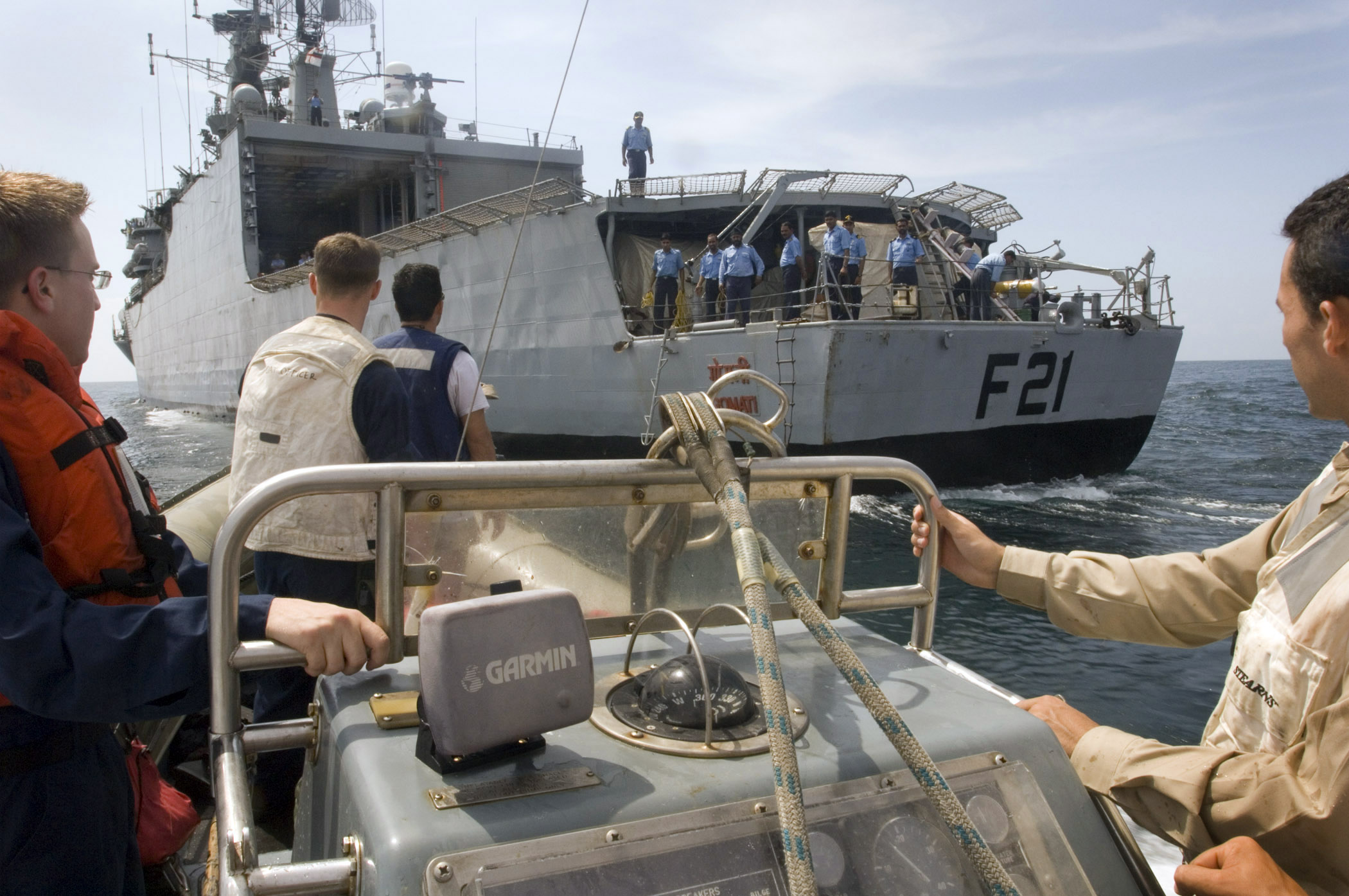 Goa, India (Sept. 29, 2005) - A Rigid Hull Inflatable Boat assigned to the guided missile destroyer USS Higgins (DDG 76) transfers U.S. Sailors to the Indian frigate INS Gomati (F 21) for an exchange of sailors, during Exercise Malabar. Malabar is a joint Indian American exercise designed to bolster relations between our two countries and enable the two countries to work together against a common threat. This year’s exercise is the largest to date including two U.S. Destroyers, USS Nimitz and the submarine Santa Fe. The Indian Navy contributed a carrier, a submarine, a frigate and their New Delhi-class Destroyer. U.S. Navy photo by Photographer’s Mate 1st Class Shane T. McCoy (RELEASED)